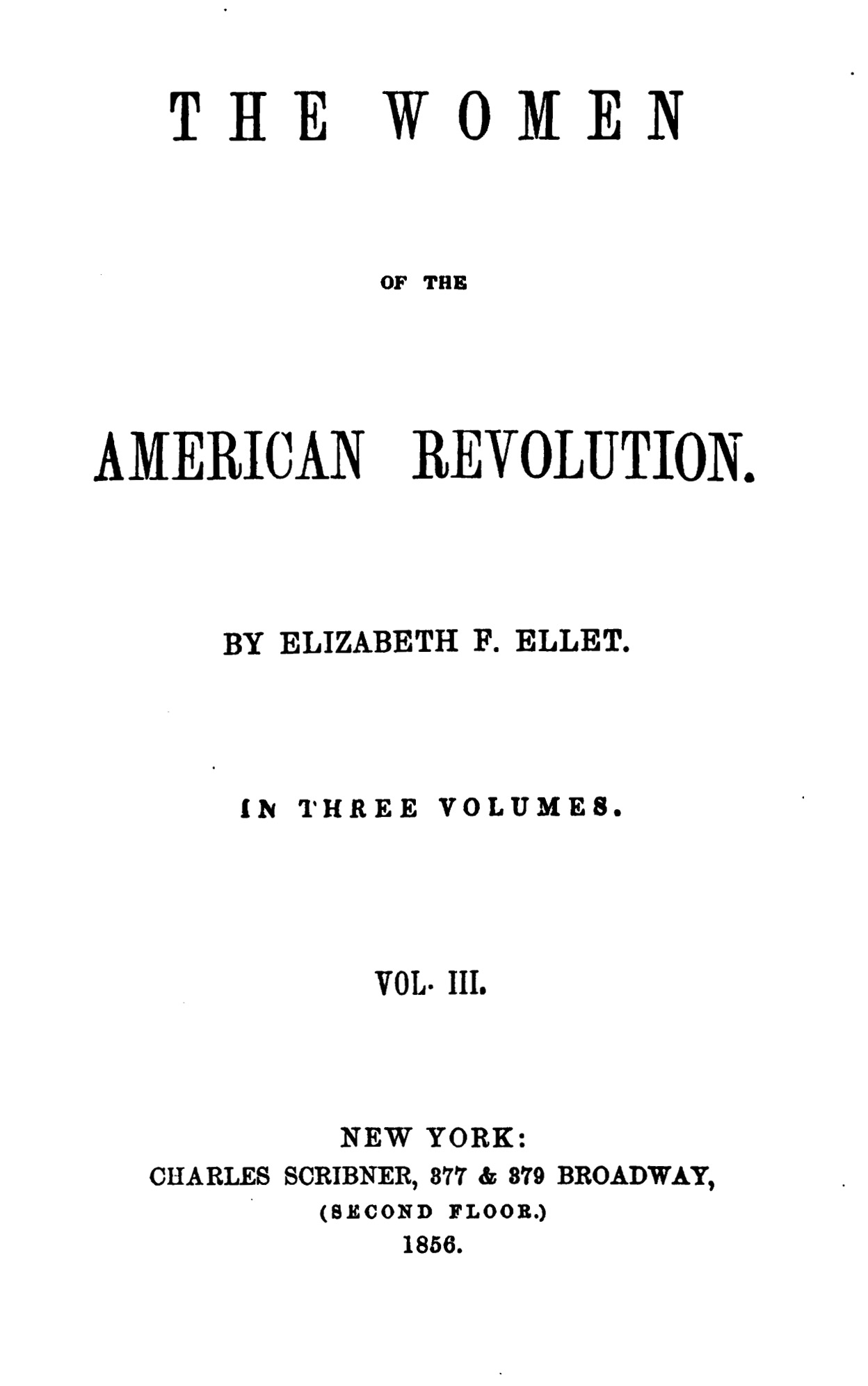 Frontispiece for Women of the American Revolution by Elizabeth F. Ellet